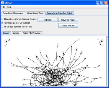 Network preview